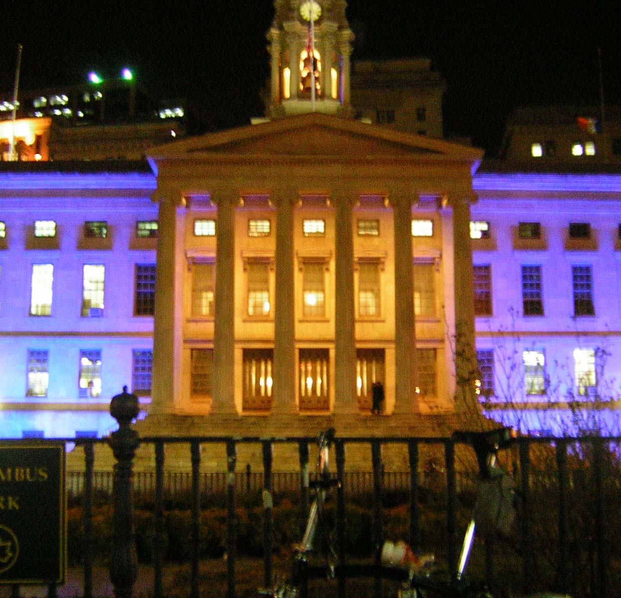 North (main) portico of Brooklyn Boro Hall at night and with no tripod on my dinky little Coolpix